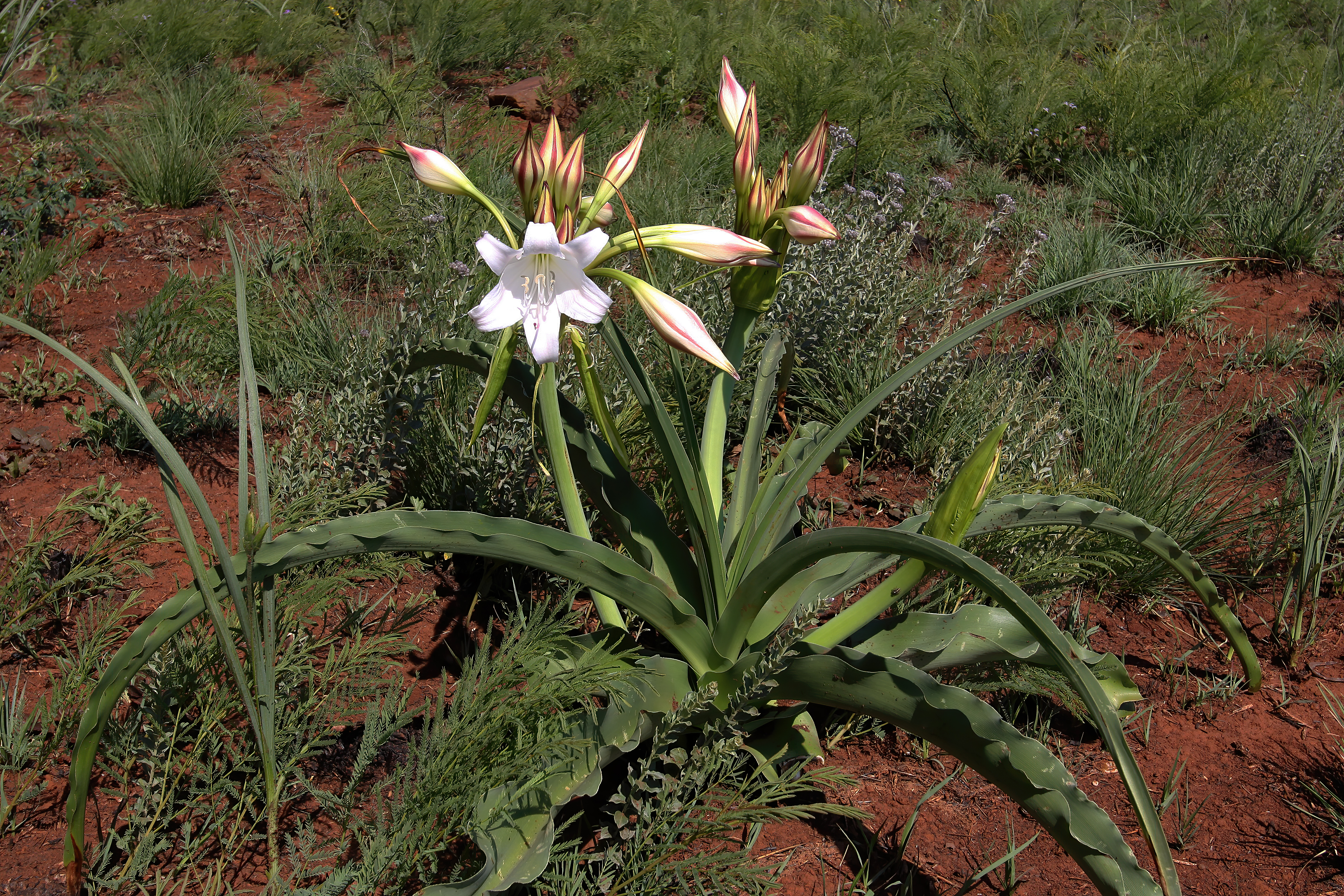 Crinum lugardiae, plant in flower; Pretoria National Botanical Garden, Pretoria, Gauteng, South Africa